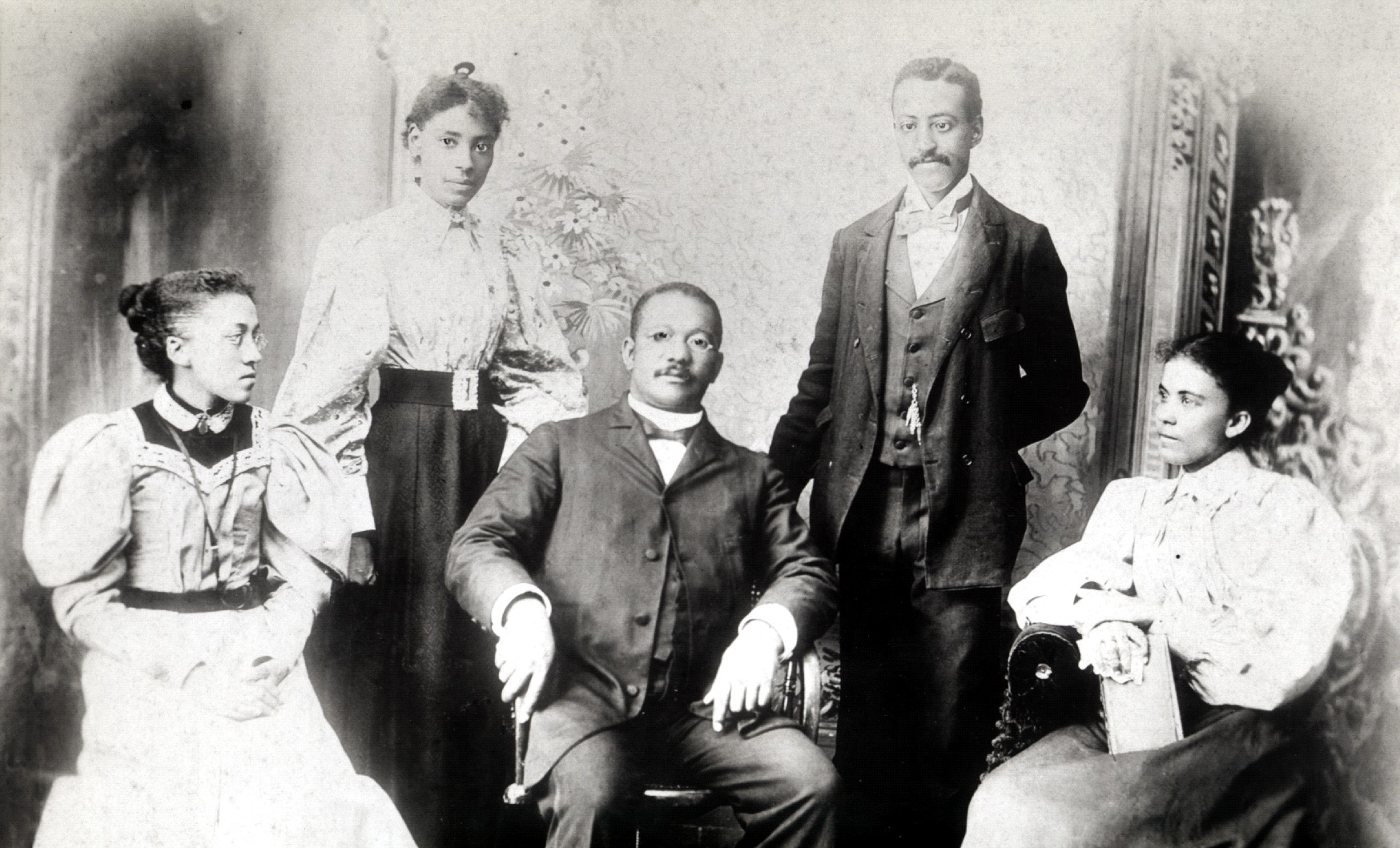 Dr. William H. Councill, founder of Alabama A&M. Provided courtesy of the Alabama A&M University Library.